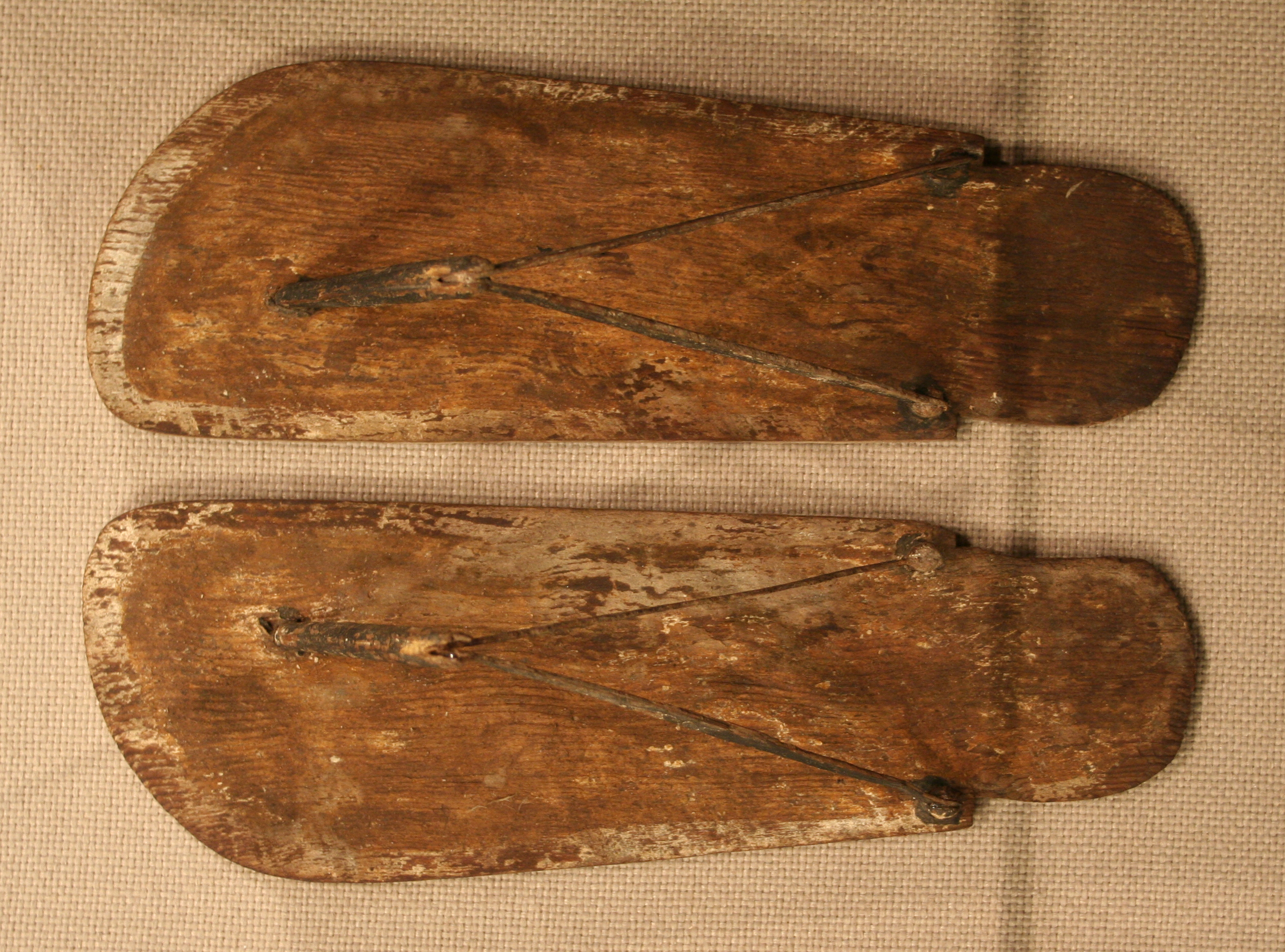 Sandals from the coffin of Herishefhotep; Abusir, 9th/10th dynasty (First Intermediate Period (2181–2055 BC))